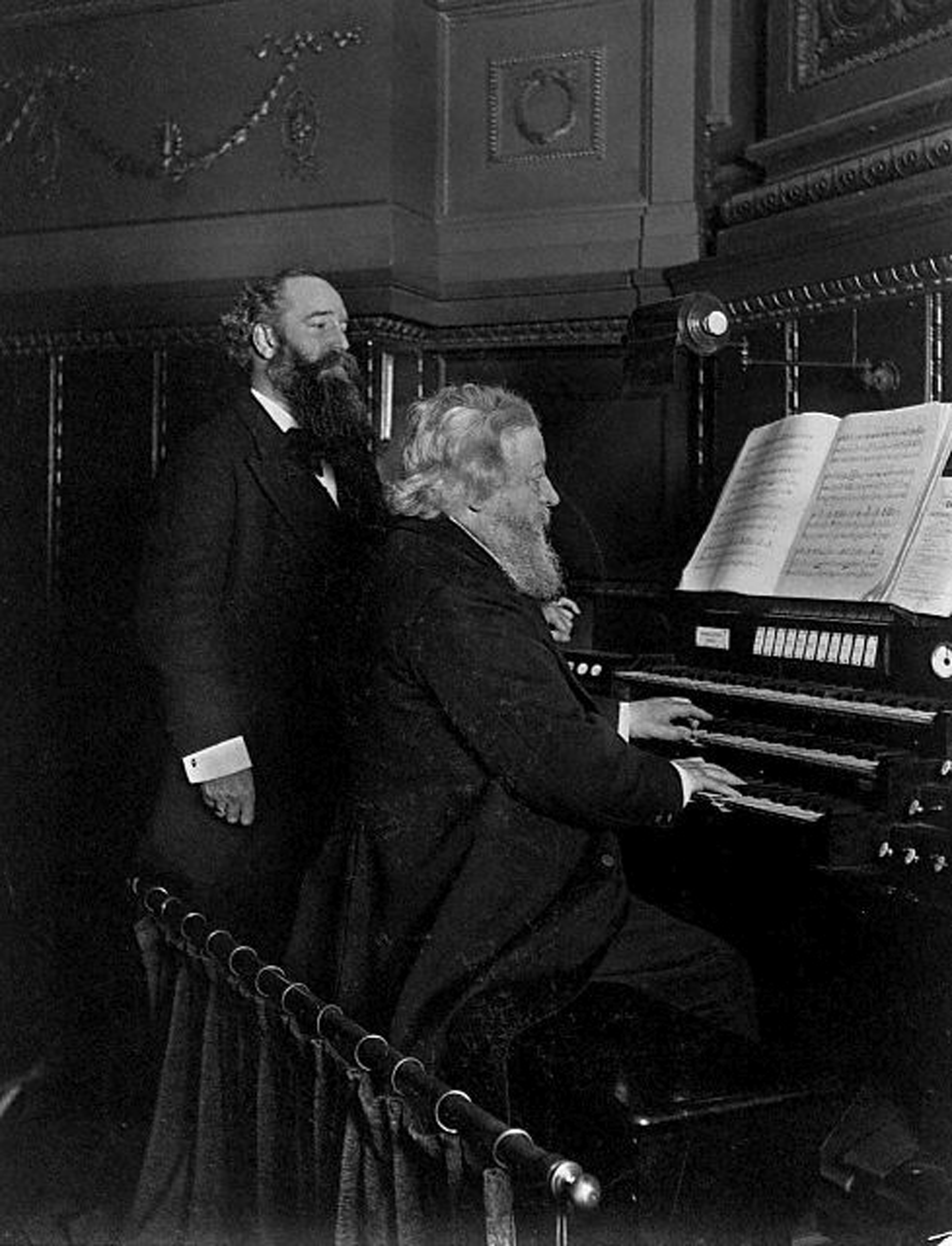 Alexandre Guilmant und Clarence Eddy in der Steinway Hall, Chicago